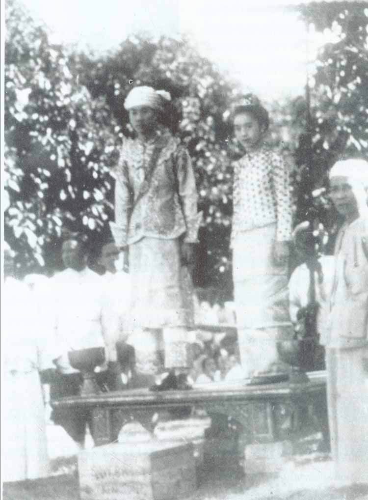 Prince Inthanon na Chiengmai and Princess Sukhantha of Kengtung wedding, 1933.